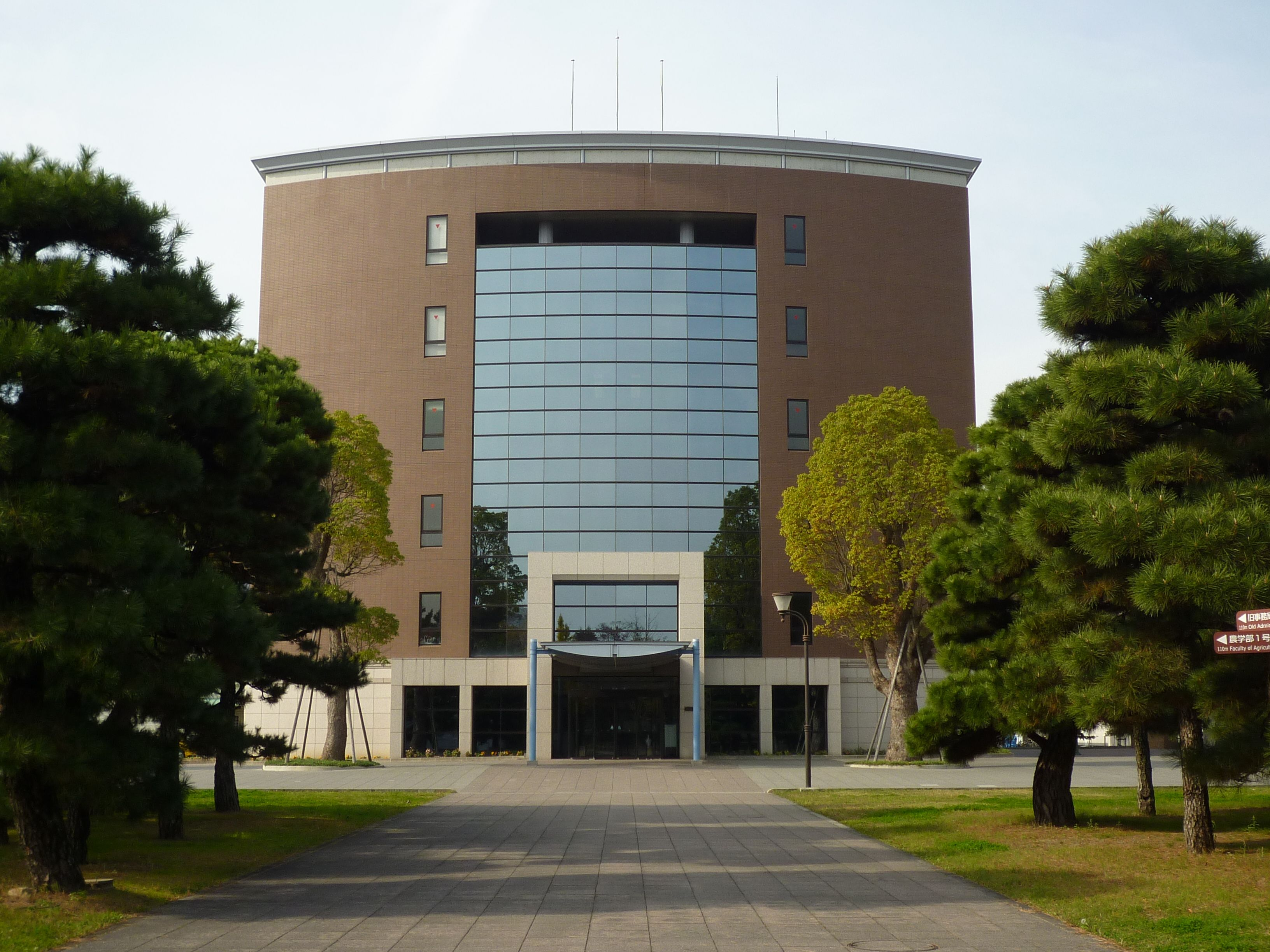 Administrative Center of Okayama University（Kita-ku, Okayama City, JAPAN. Okayama University Tsushima Campus）